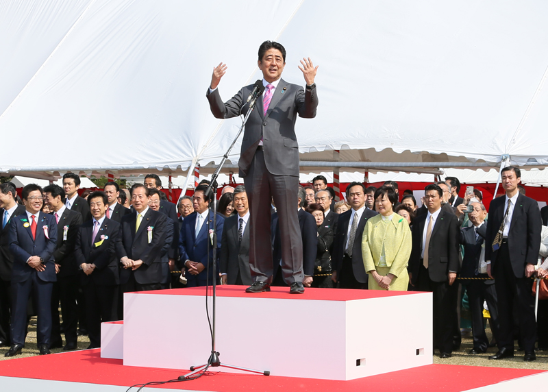 Shinzō Abe, Prime Minister, addressed the Cherry Blossom Viewing Party at Shinjuku Gyoen in Shinjuku Ward and Shibuya Ward, Tōkyō Metropolis on April 15, 2017.